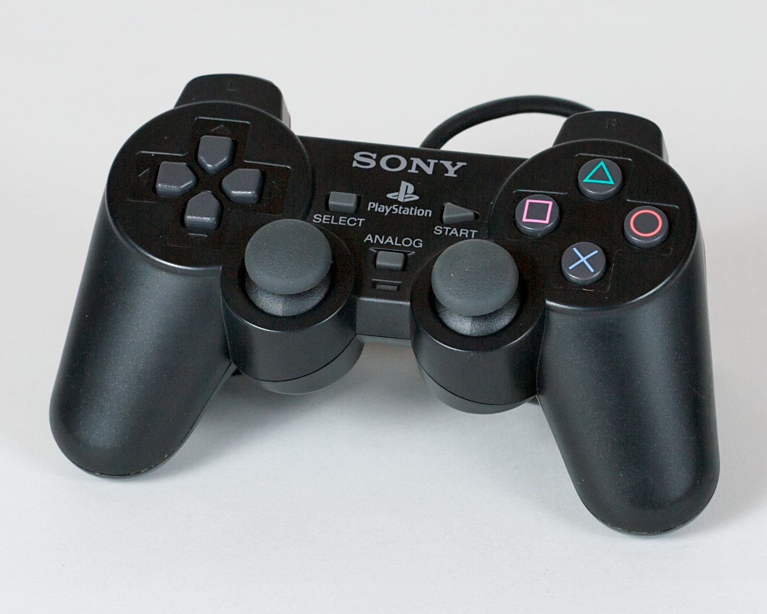 PlayStation 2 DualShock 2 Controller (black).